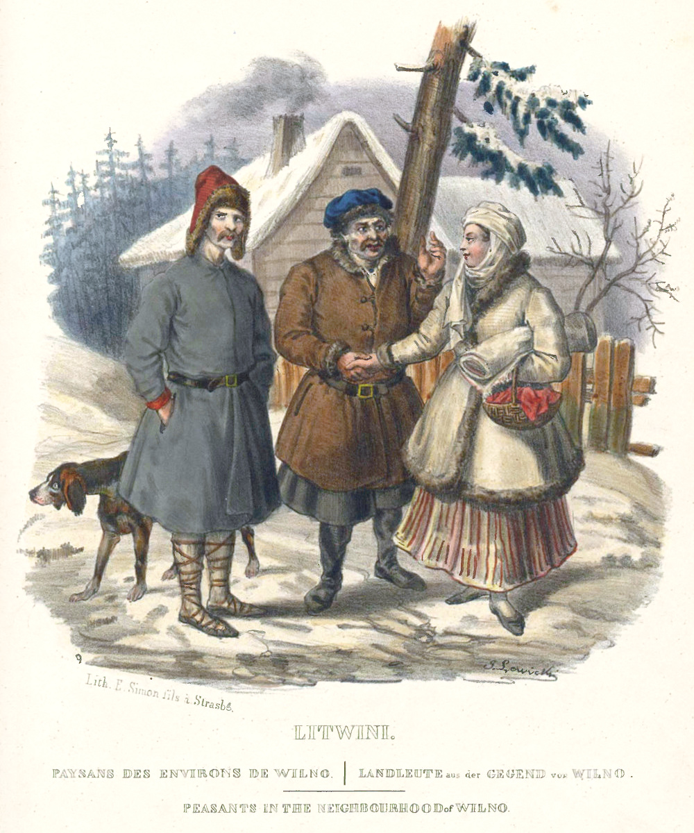 Linwini. Peasants in the neighbourhood of Wilno. The painting depicts peasants in Belarusian clothes.